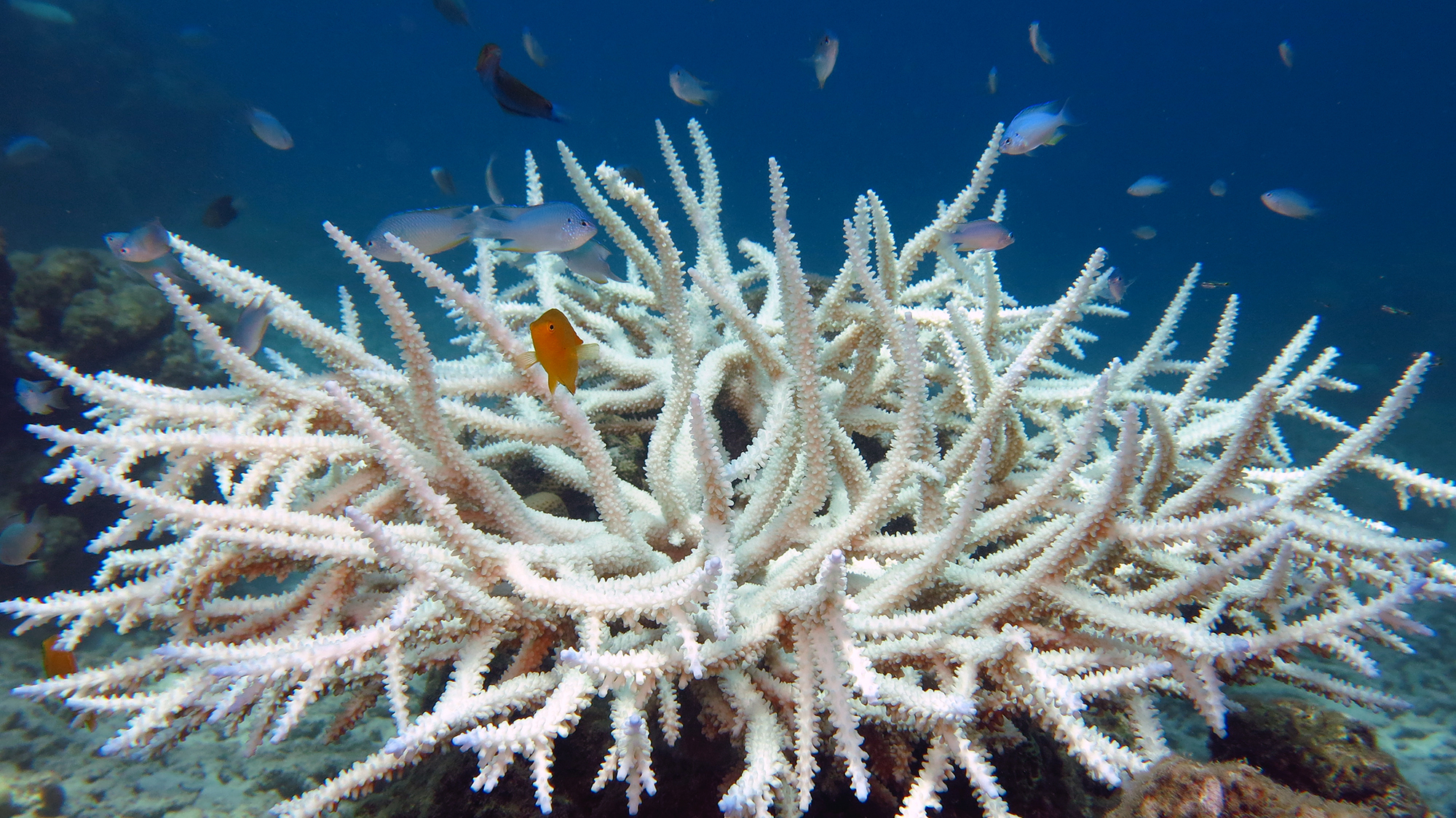 Bleached coral, Acoropora sp.